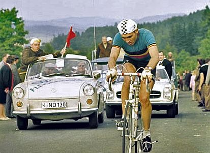 Near the end of the 1966 World Road Race Championship at the Nürburgring, Germany and Eddy Merckx heads for 12th place.